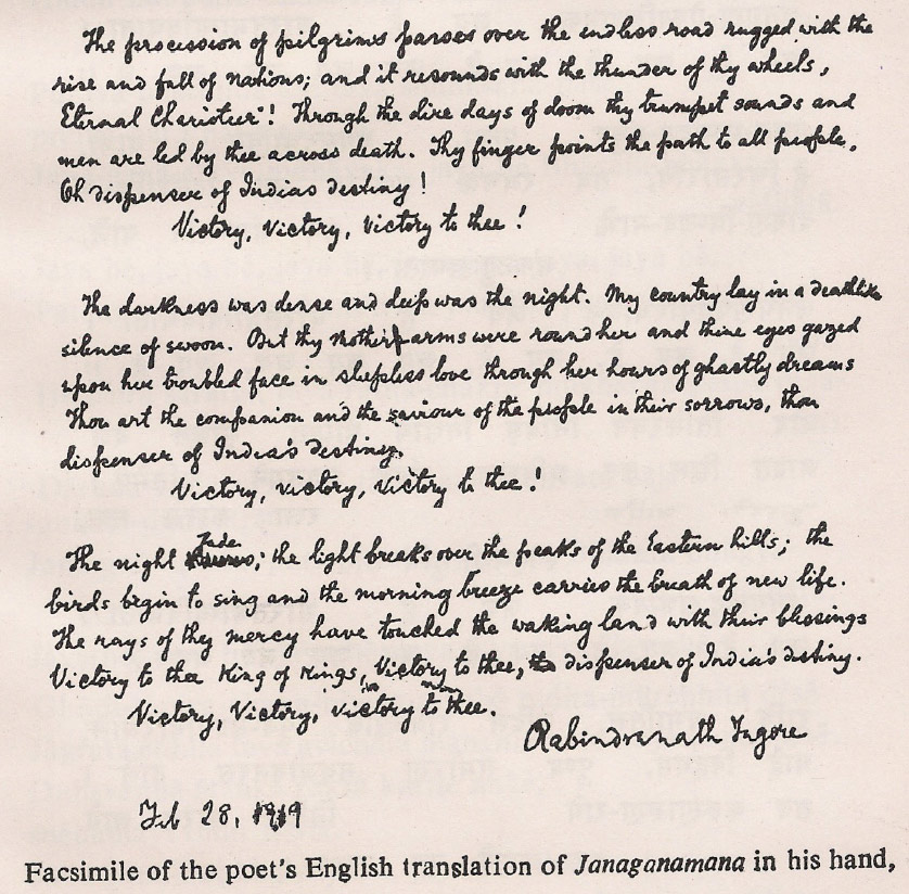 English translation of Jana Gana Mana by Tagore (part 2)